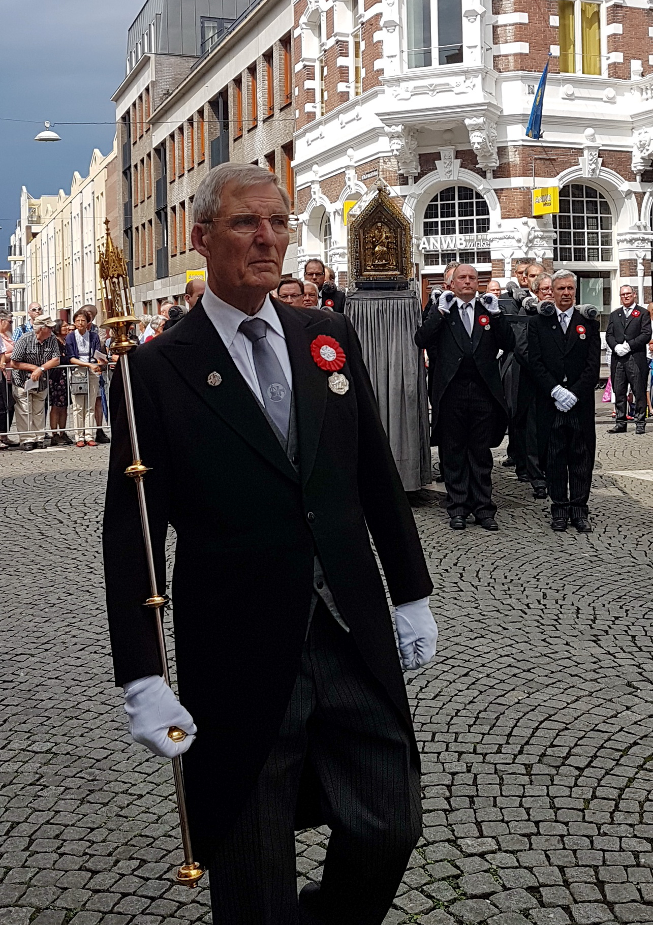 Participants in a historic religious procession during the 2018 Heiligdomsvaart (Relics Pilgrimage) in Maastricht, Netherlands. The history of this seven-yearly catholic pilgrimage goes back to the Middle Ages. The first 'modern' version took place in 1874. On both Sundays of the 10-day festival, a procession is held in which the main relics and other devotional objects are exhibited. This photo was taken on the corner of Wycker Brugstraat and Wycker Grachtstraat during the (first) procession on Sunday 27 May 2018. This particular group forms the apogee of the procession: the Noodkist or reliquary chest of Saint Servatius, a 12th-century masterpiece of Mosan art containing the relics of the city's patron saint.